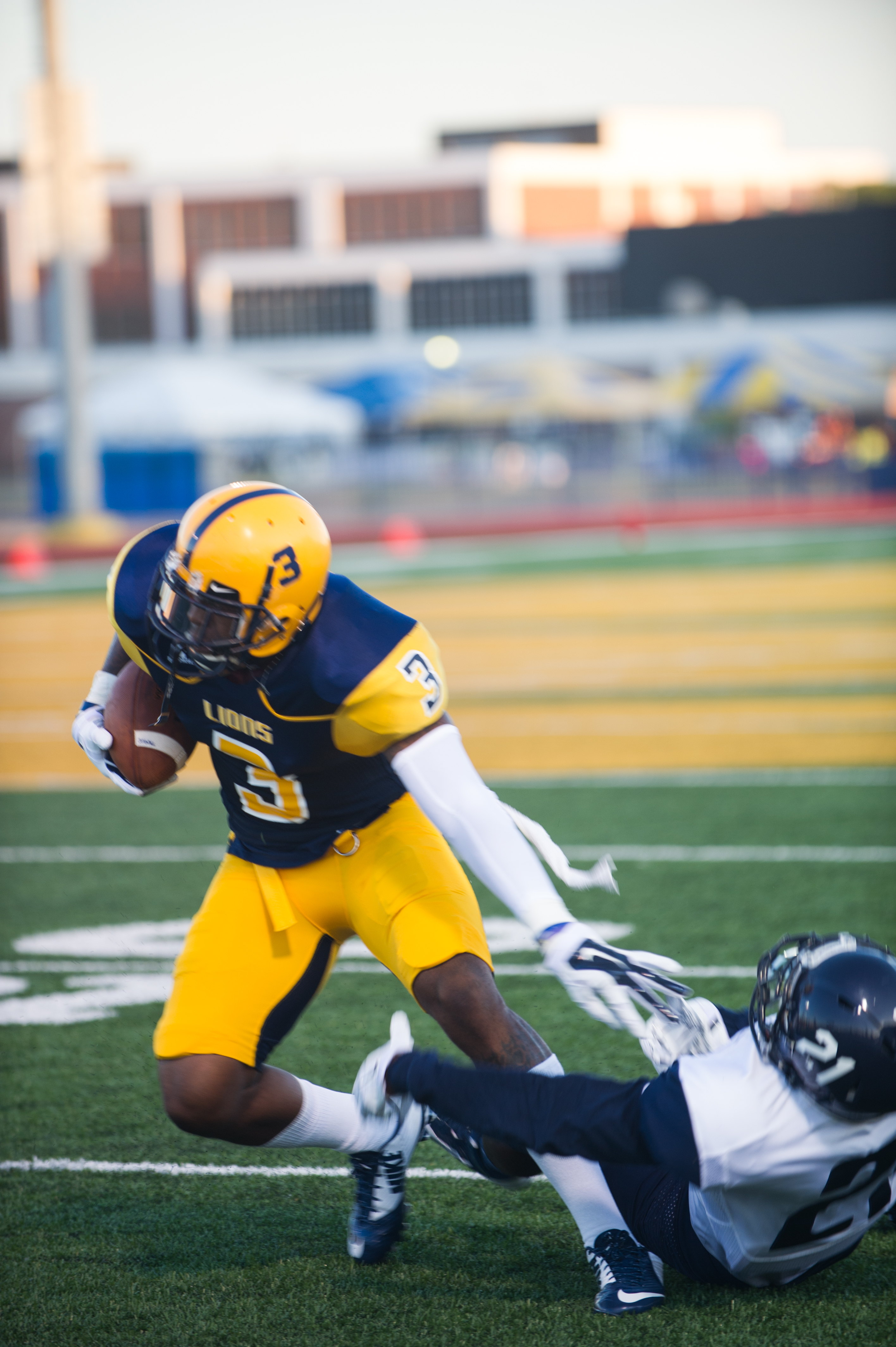 14401-Football vs ETB-8021.jpg Scenes from the East Texas Baptist Tigers vs. Texas A&M–Commerce Lions football game on September 4, 2014.